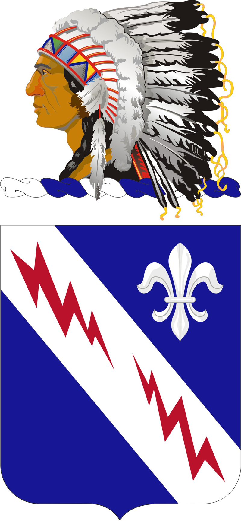 Coat of arms of the 279th Infantry Regiment (US Army) This image shows a flag, a coat of arms, a seal or some other official insignia produced by the United States Army Institute of Heraldry. It is in the public domain but its use is restricted by Title 18, United States Code, Section 704 and the Code of Federal Regulations (32 CFR, Part 507). Permission to use these images for commercial purposes must be obtained from The Institute of Heraldry prior to their use.